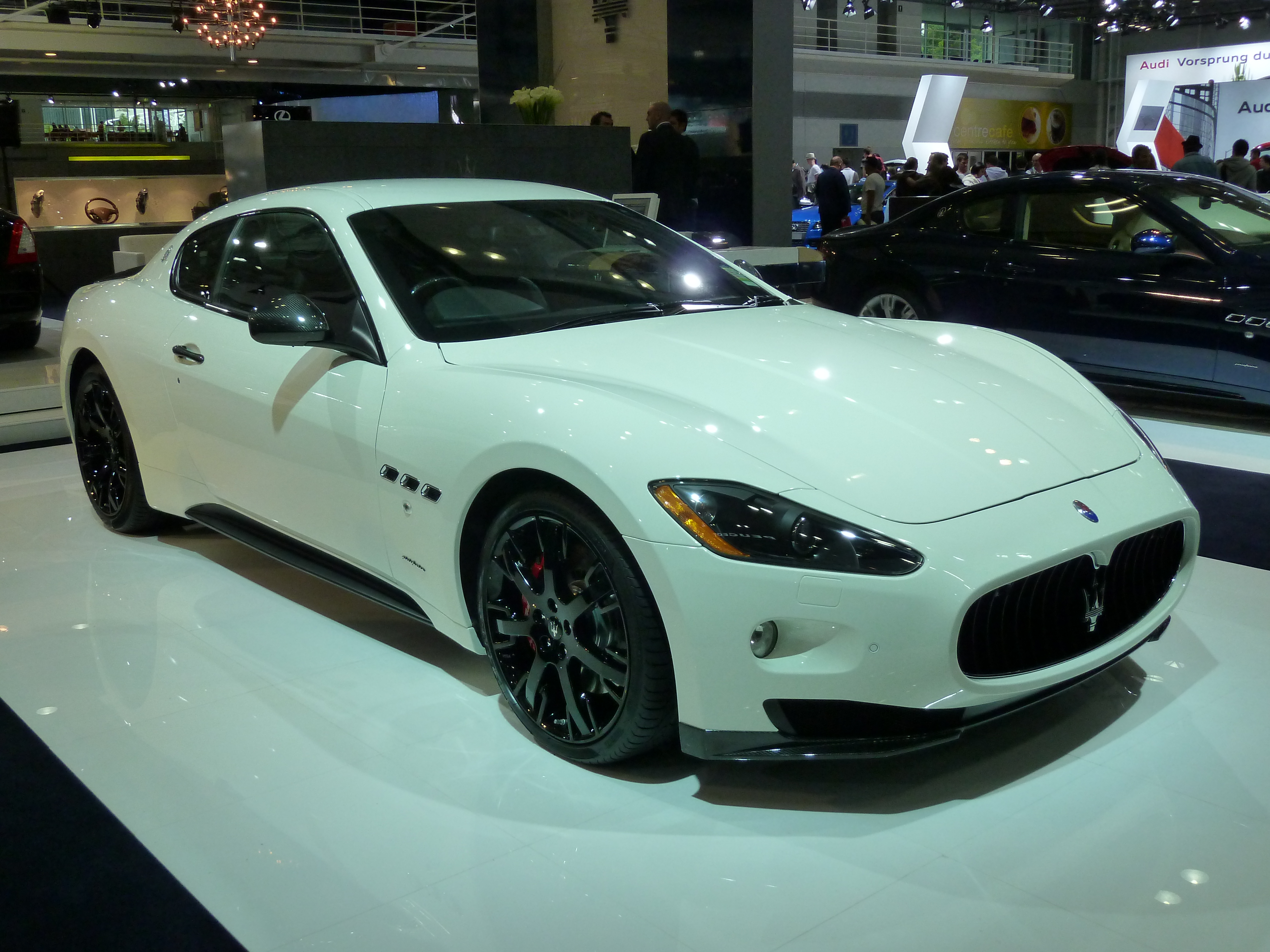 2010 Maserati GranTurismo S MC Sport Line coupe. Photographed at the 2010 Australian International Motor Show, Sydney, New South Wales, Australia.